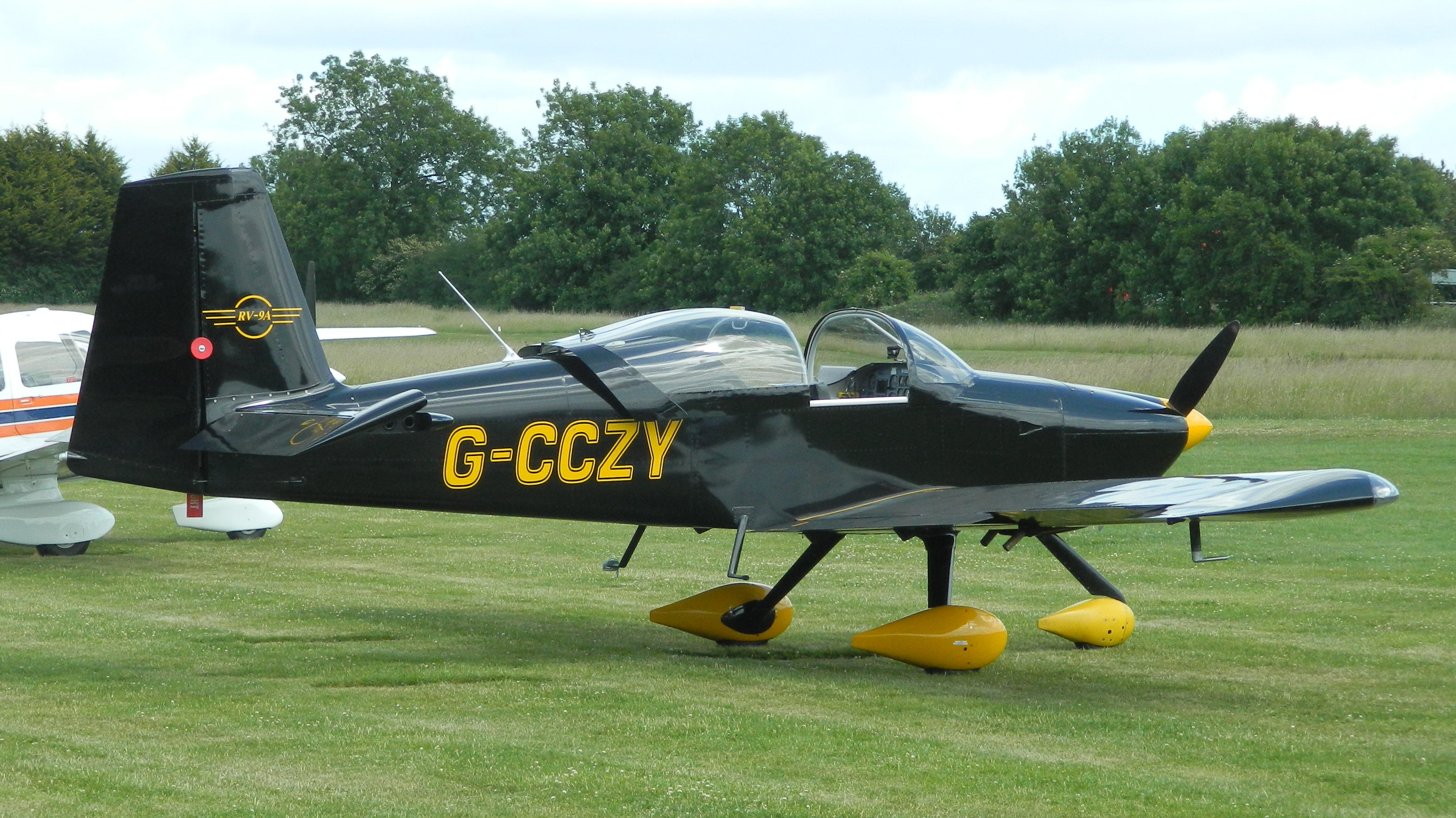 G-CCZY is a Vans RV-9A amateur built in 2006, at Popham Aerodrome, England on 27 June 2015